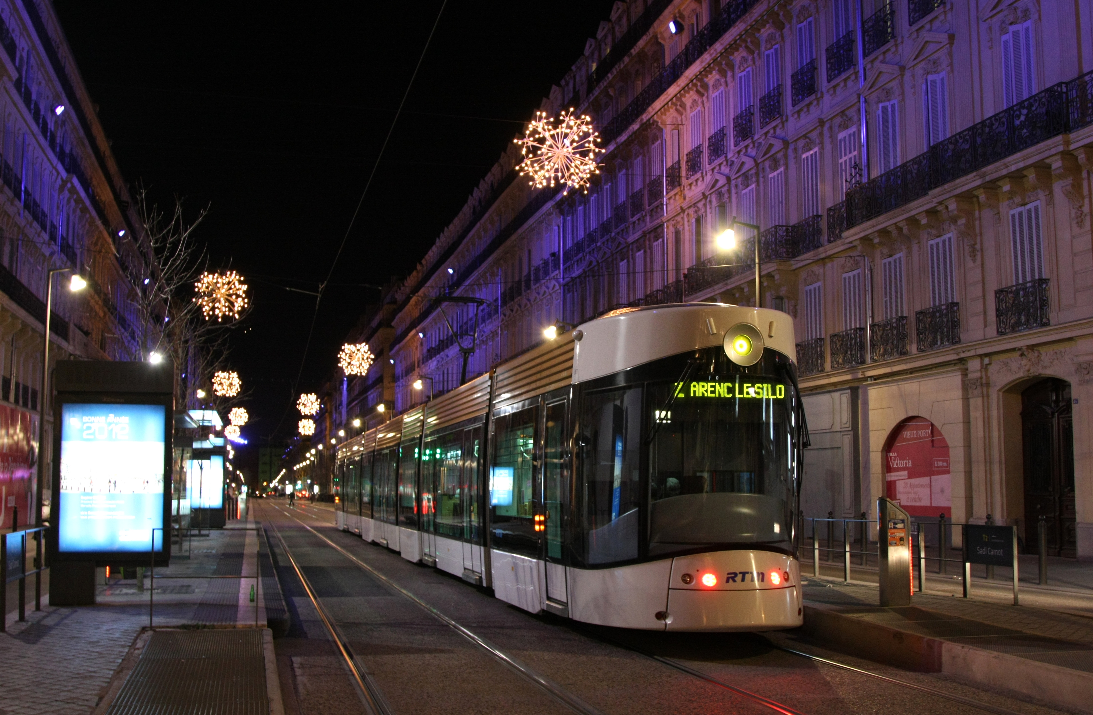 A tramway stopped at Sadi Carnot station in Marseille.